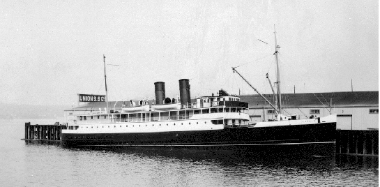 Steamship Catala at the dock of the Union Steamship Company in Vancouver, BC, July 1925.